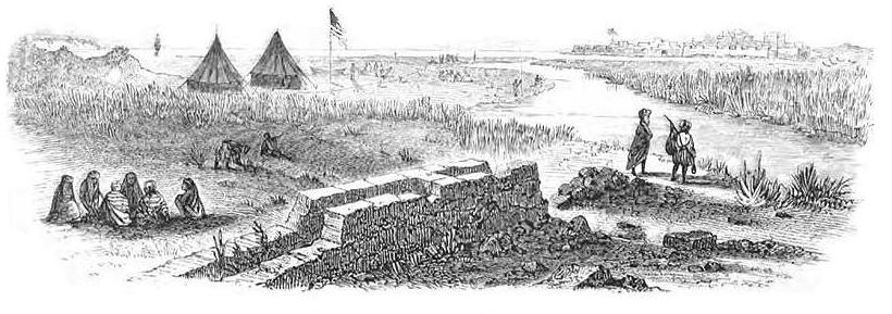 Painting from William Francis Lynch book The Narrative of the United States Expedition of the River Jordan and the Dead Sea. Published in 1849